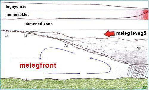 Warmfront - Melegfont